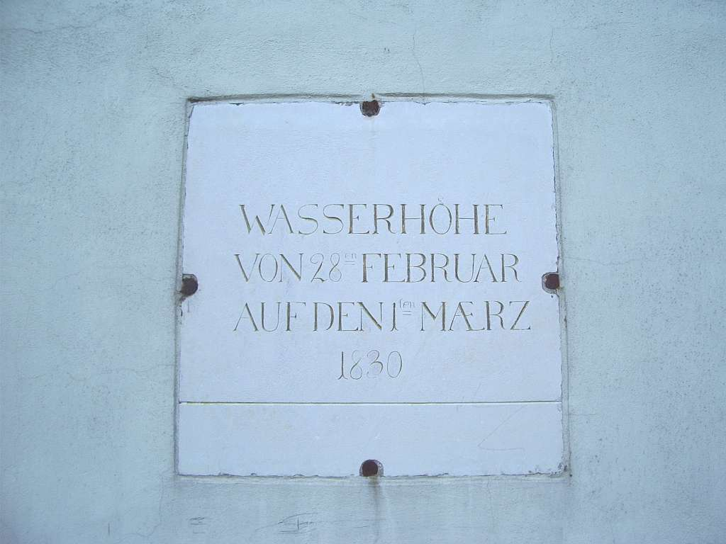 One of the two lapidary inscriptions indicating the waterlevel of the flood in the year of 1830, when the whole Augarten was flooded abut 1,75 meters high.